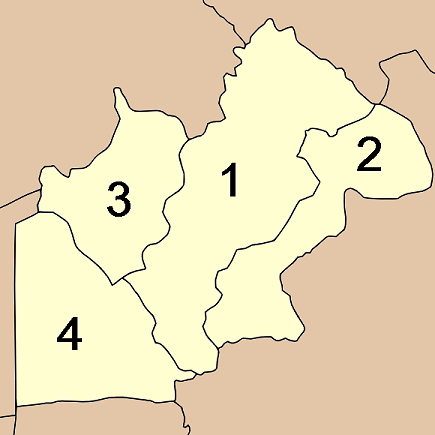 Map of Nakhon Nayok province, Thailand, with the districts (Amphoe) listed: Mueang Nakhon Nayok (อำเภอเมืองนครนายก) Pak Phli (อำเภอปากพลี) Ban Na (อำเภอบ้านนา) Ongkharak (อำเภอองครักษ์)